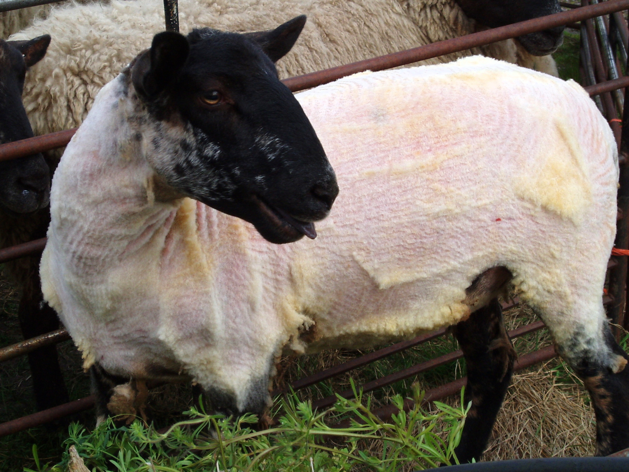 A recently sheared sheep.